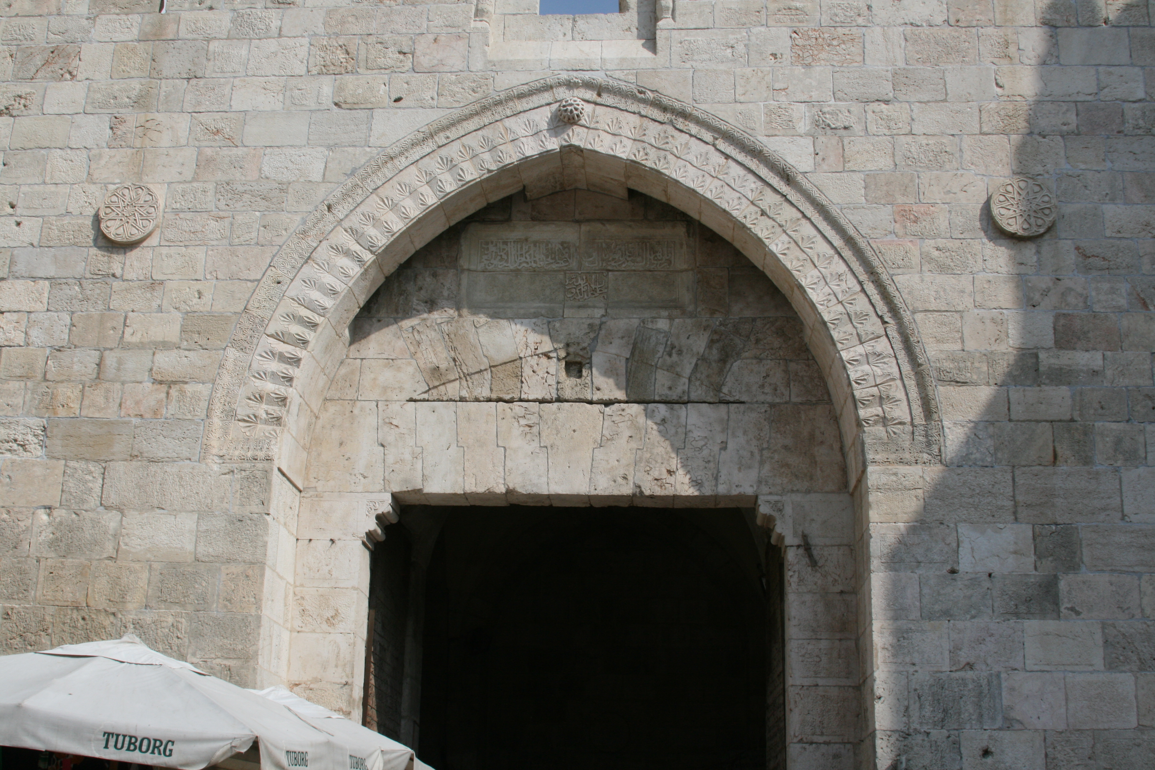 May 2013 trip to Jerusalem, part of Behold the Man curriculum of St. George's College. Jerusalem